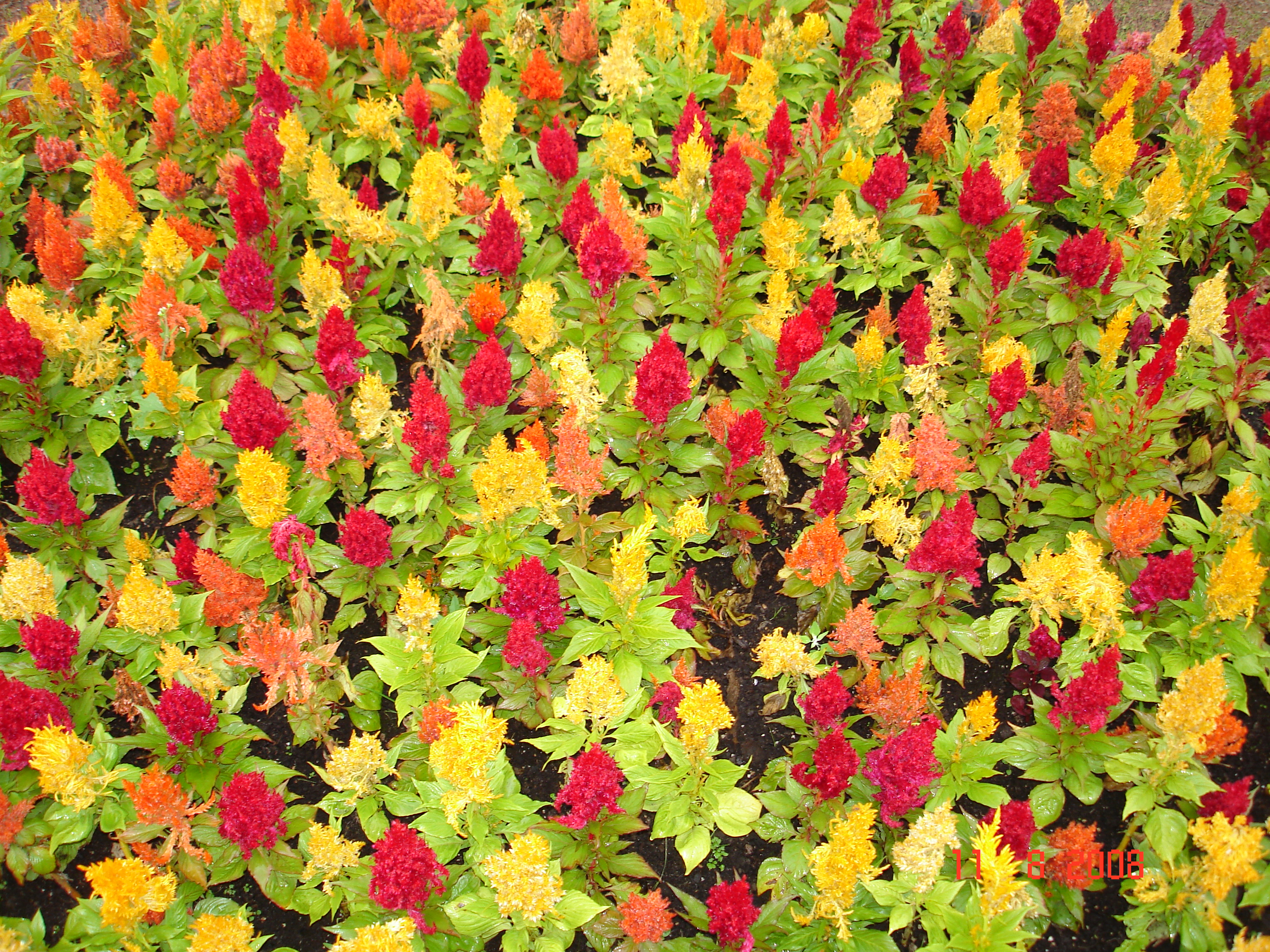 Flowers At Moscow Exhibition Centre